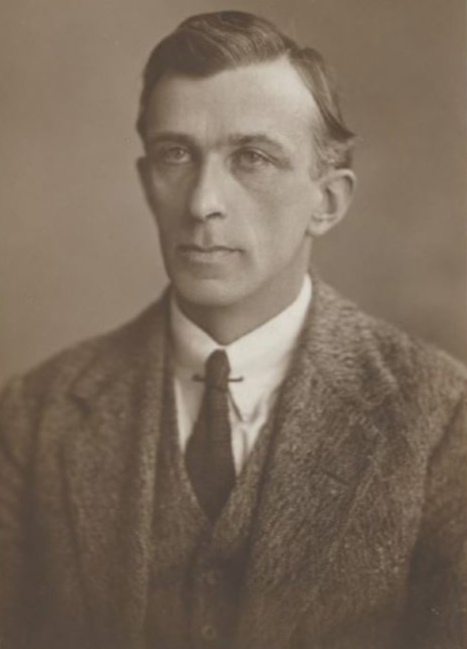 Portrait style photograph of Rory O'Connor, taken 8th of December 1922.